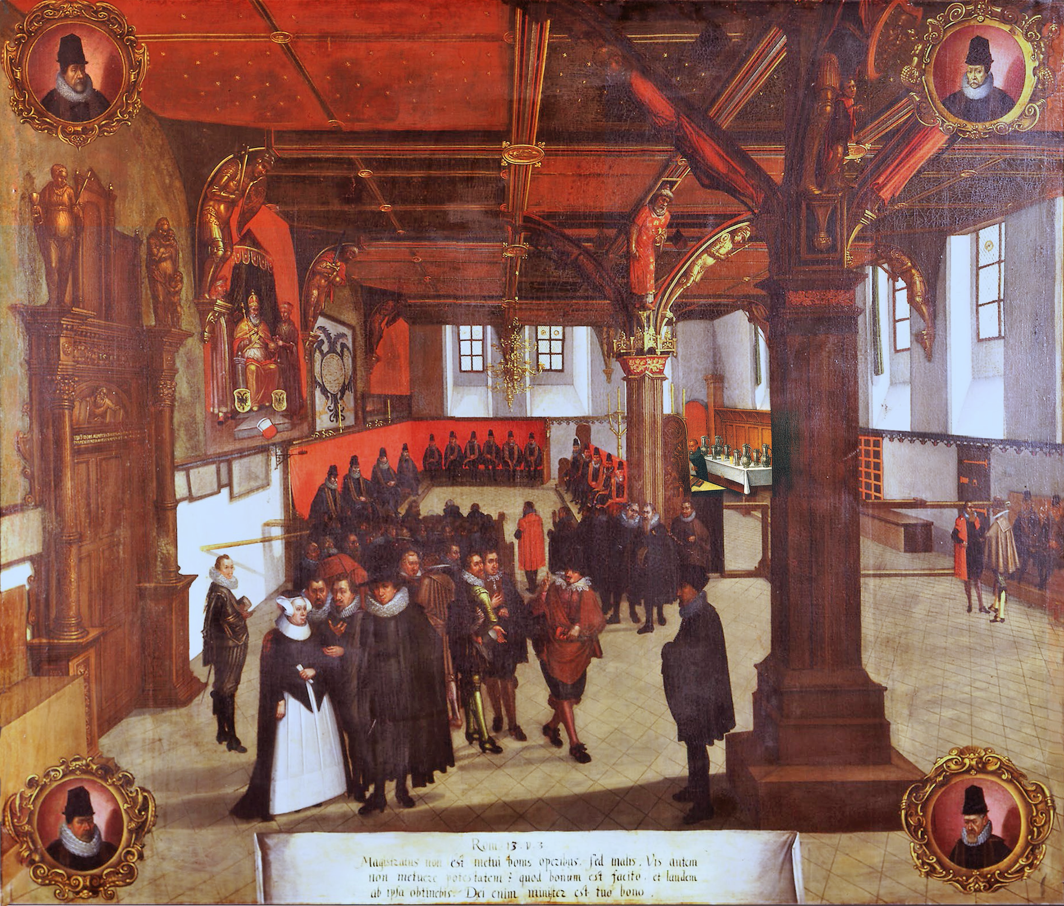 Hans von Hemssen, The Audience Chamber of the Rathaus at Lübeck, 1625. St. Annen-Museum, Lübeck